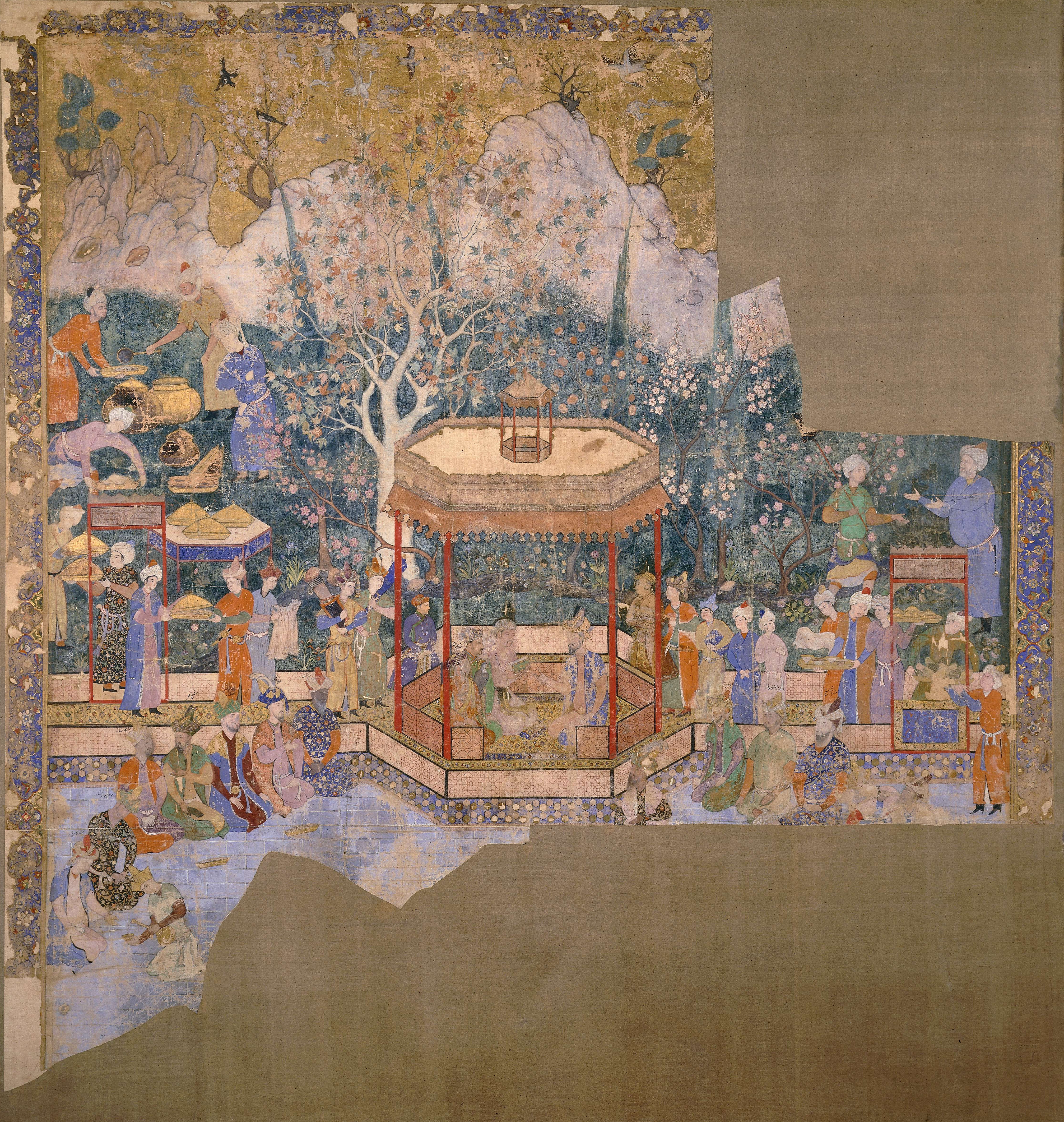 Mughal miniature painting, attributed to Abd as-Samad, ca. 1550-1555 This is the earliest known example of a Mughal painting, which has been described by J.M. Rogers as 'a variety of Islamic painting practised in India principally in the 16th and 17th centuries'. The painting is in colours and gold on fine cotton fabric. What has survived of the picture depicts a ruler seated in a garden pavilion and wearing Central Asian dress. He is flanked by two servants and faces a visitor. To either side of him are courtiers and nobles and, in the background, servants. The missing foreground probably depicted dancers and musicians performing a courtly entertainment. The central figure is believed to be Humayun (1508-56), the second Mughal Emperor; many of the heads were repainted to depict later Mughal rulers, creating a genealogical scene.